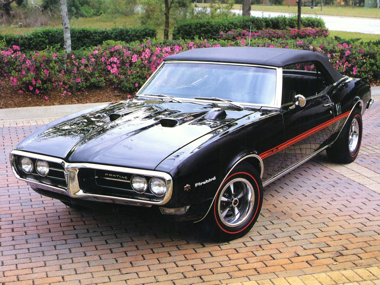 1968_Pontiac_Firebird_400_HO_Convertible_w_Hood_Tach_Black_Frt_Qtr